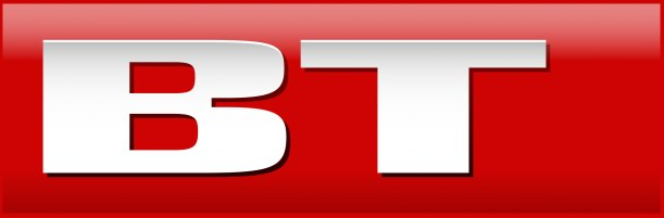 Official logo of Danish tabloid newspaper BT. It became the logo on 13 April, 2012 when the paper changed its name from B.T. to BT.